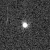 Hubble Space Telescope image of the Jupiter trojan (Greek camp) 11351 Leucus, taken on 30 August 2018.